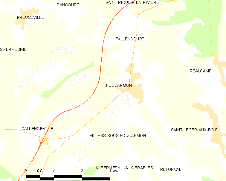 Map of French municipality Foucarmont